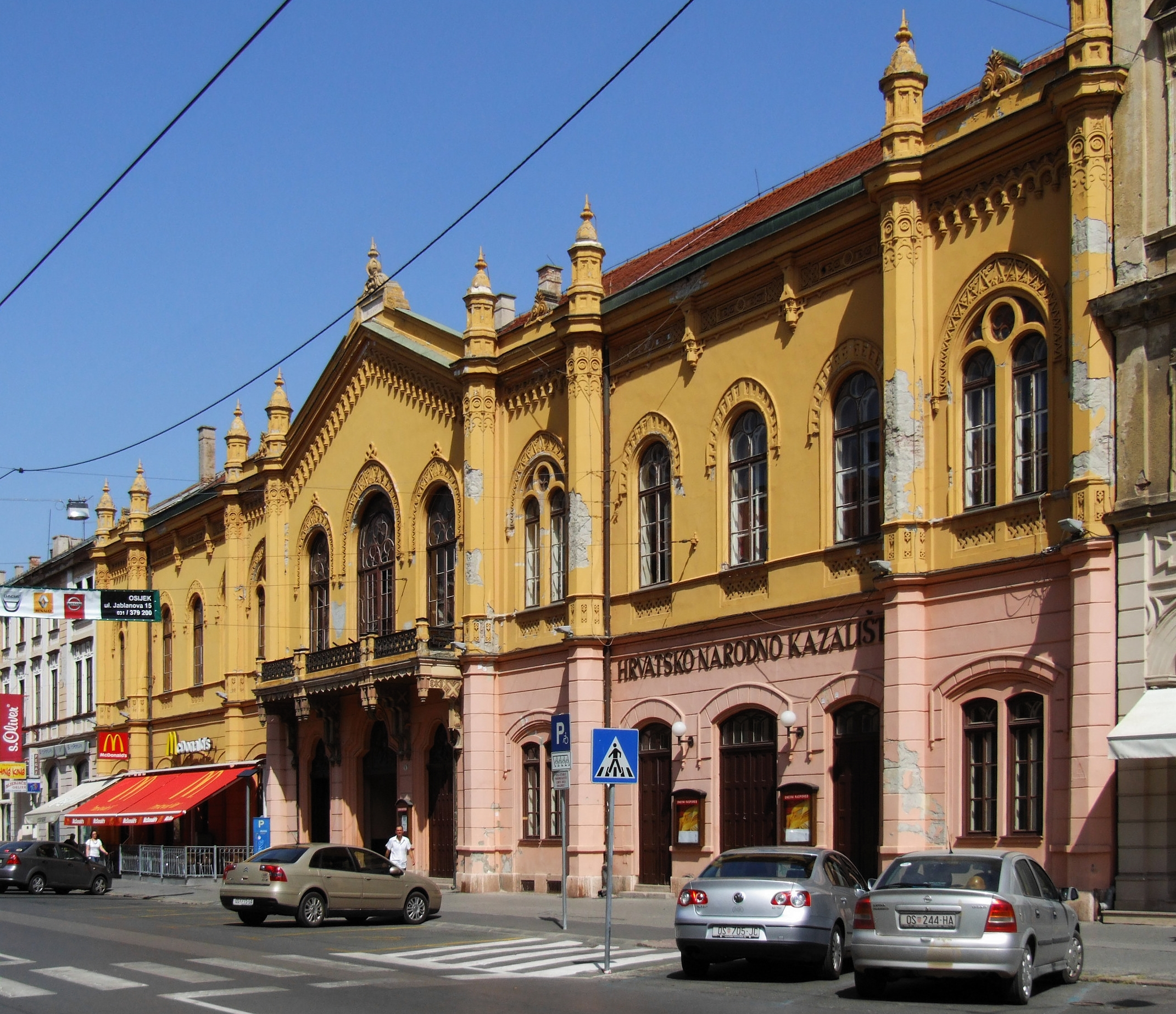 Croatian National Theater, Osijek